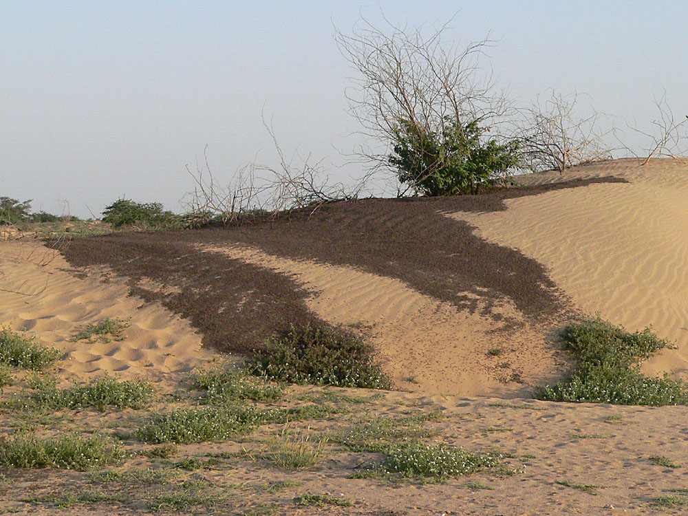 Dense L3 hopper band of Schistocerca gregaria photographed near Aeterba, Red Sea coast, Sudan